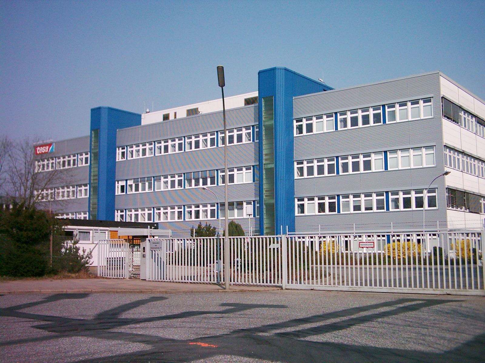 tesa AG in Hamburg-Hausbruch, Germany.